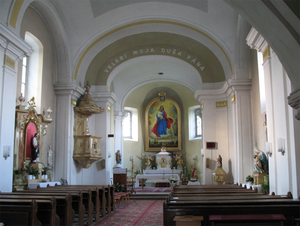 Interieur of Church in a Šoporňa